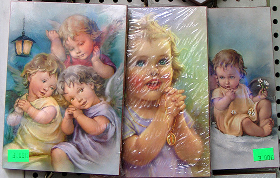 Description: Boulevard de la grotte (the Massabelle Cave Boulevard) :Place: Lourdes :Country: France :Photographer: Jean-noël Lafargue :Shot date : August, 9th, 2005